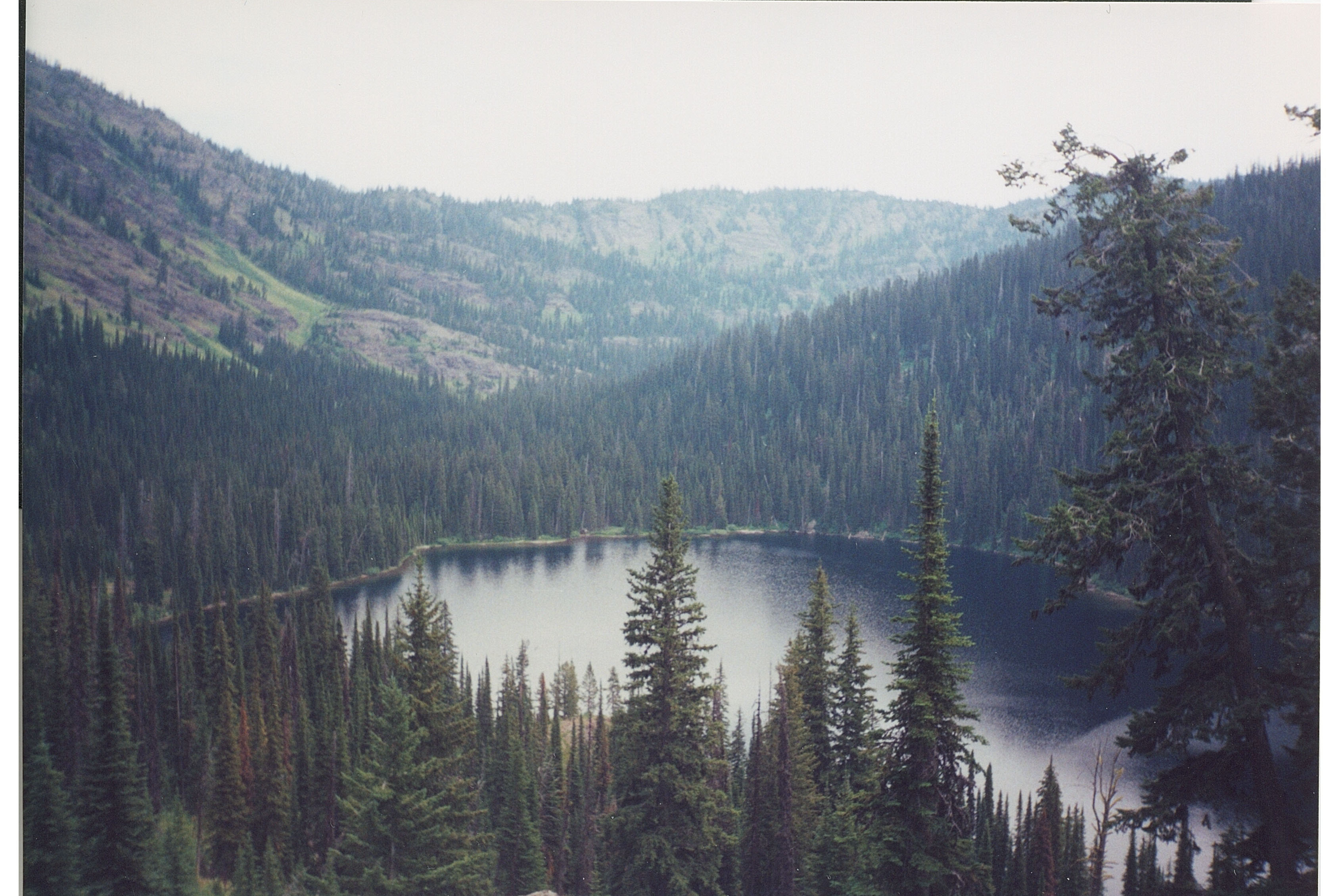 Lake in the Swan Range, Bob Marshall Wilderness. Photo taken summer 2000 by John David Stutts.